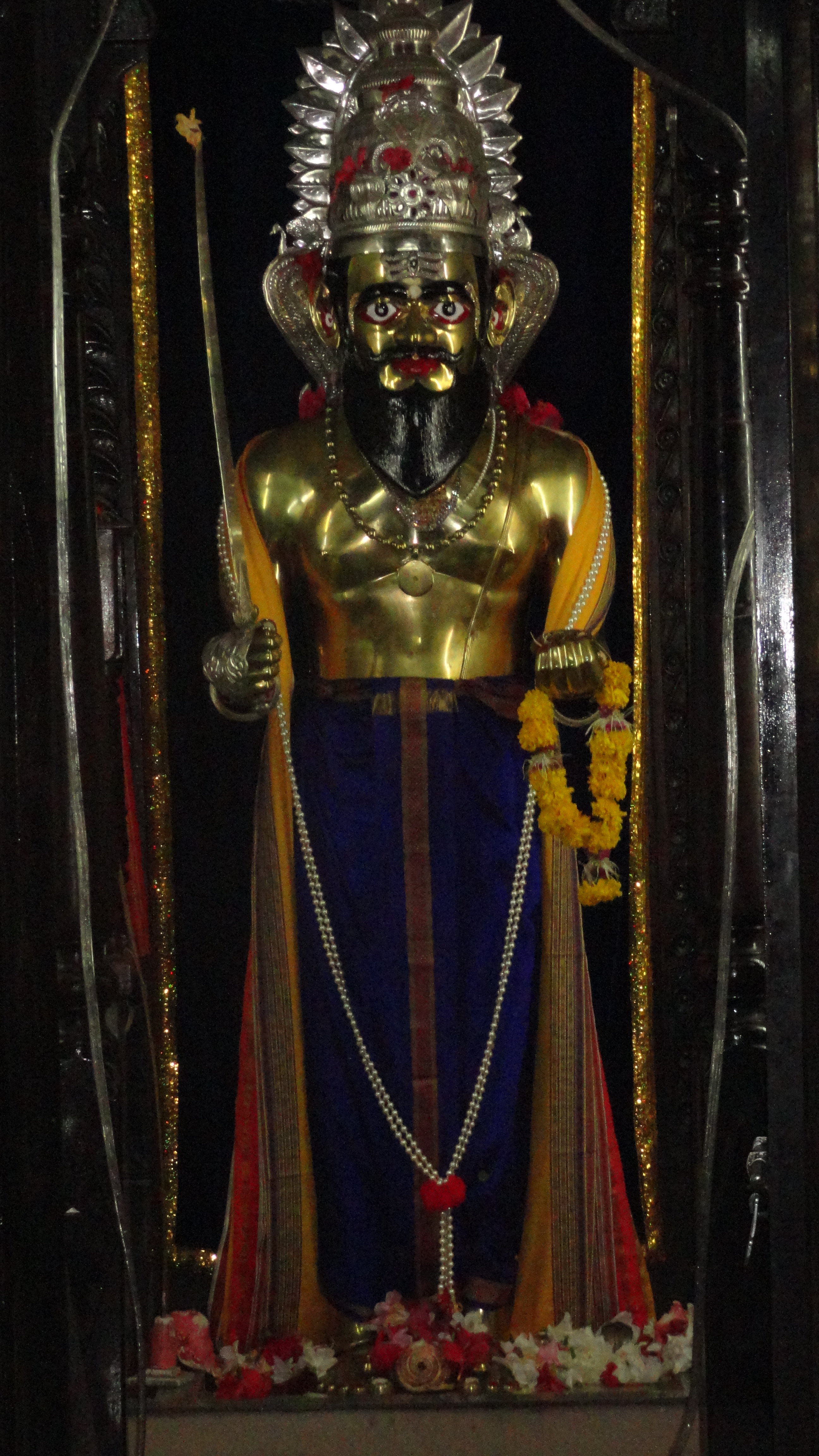 Purvas_Vetal